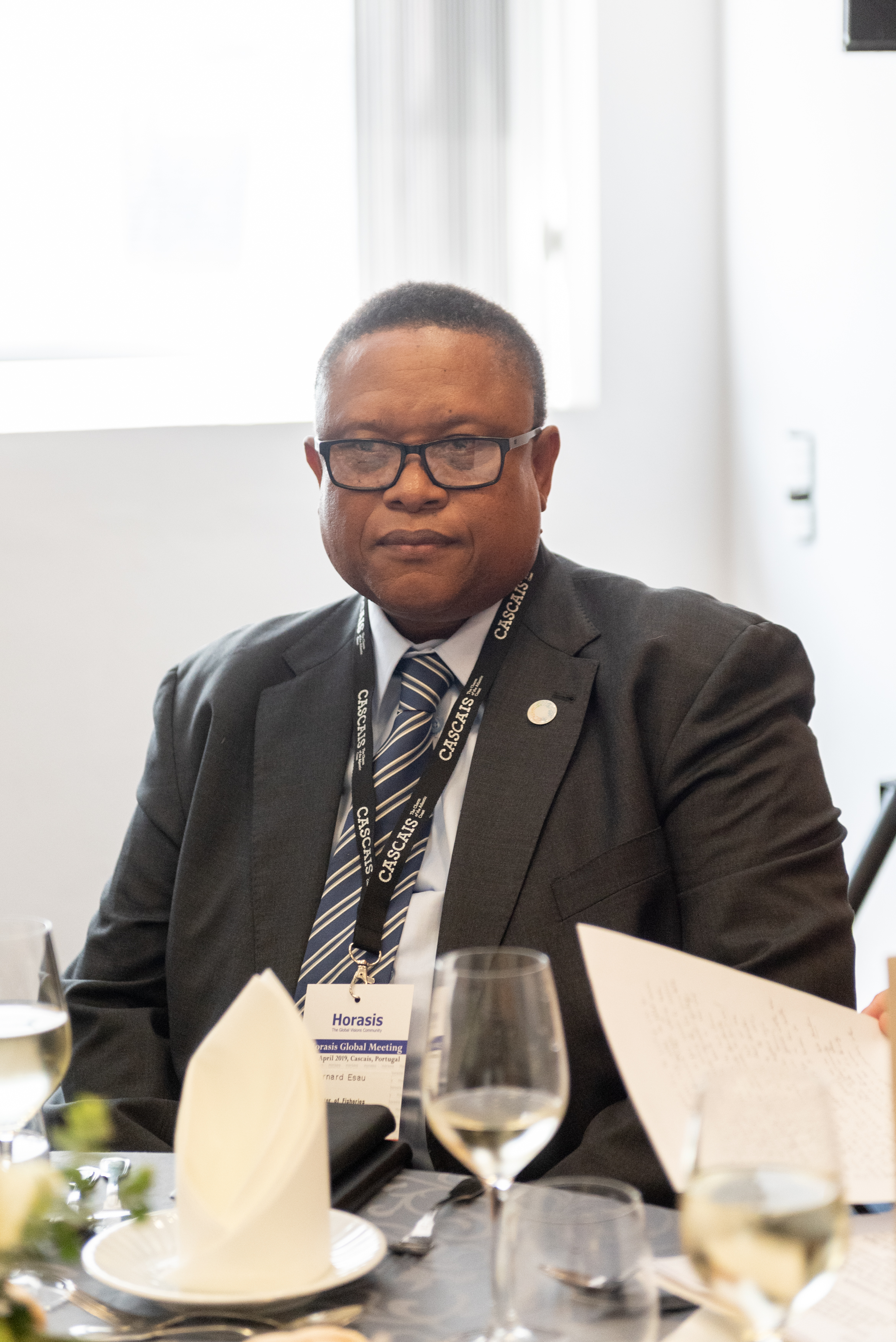 Horasis Global Meeting, Cascais, 6-9 April